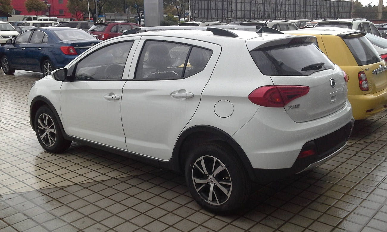 Lifan X50 photographed in Shanghai, China.